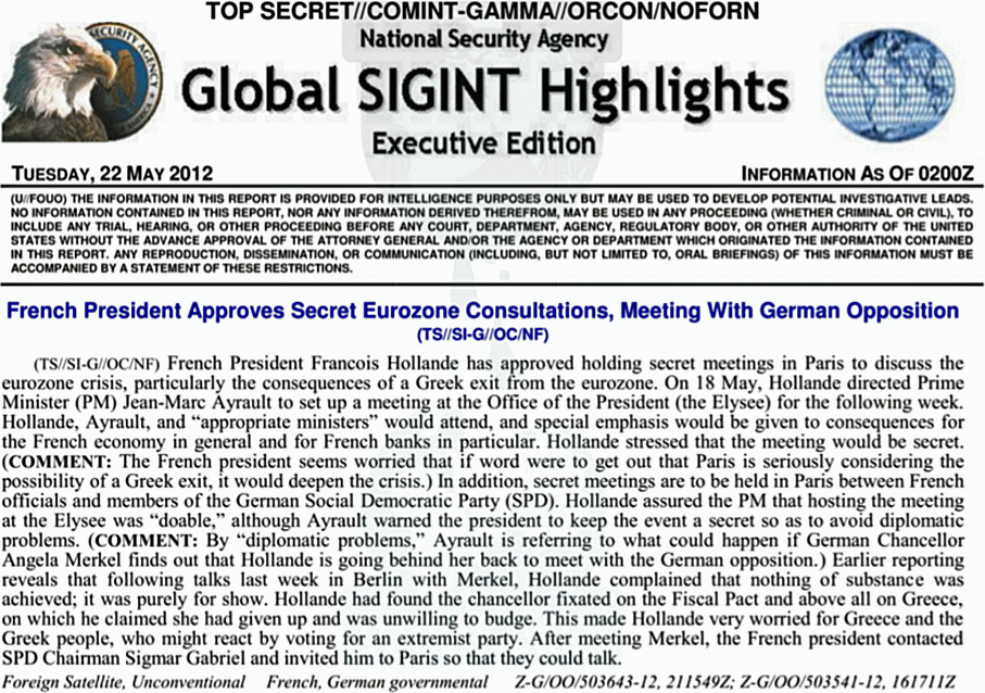 Global SIGINT Highlight with intelligence on covert meetings of the French President François Hollande (22 May 2012), as released by wikileaks in June 2015